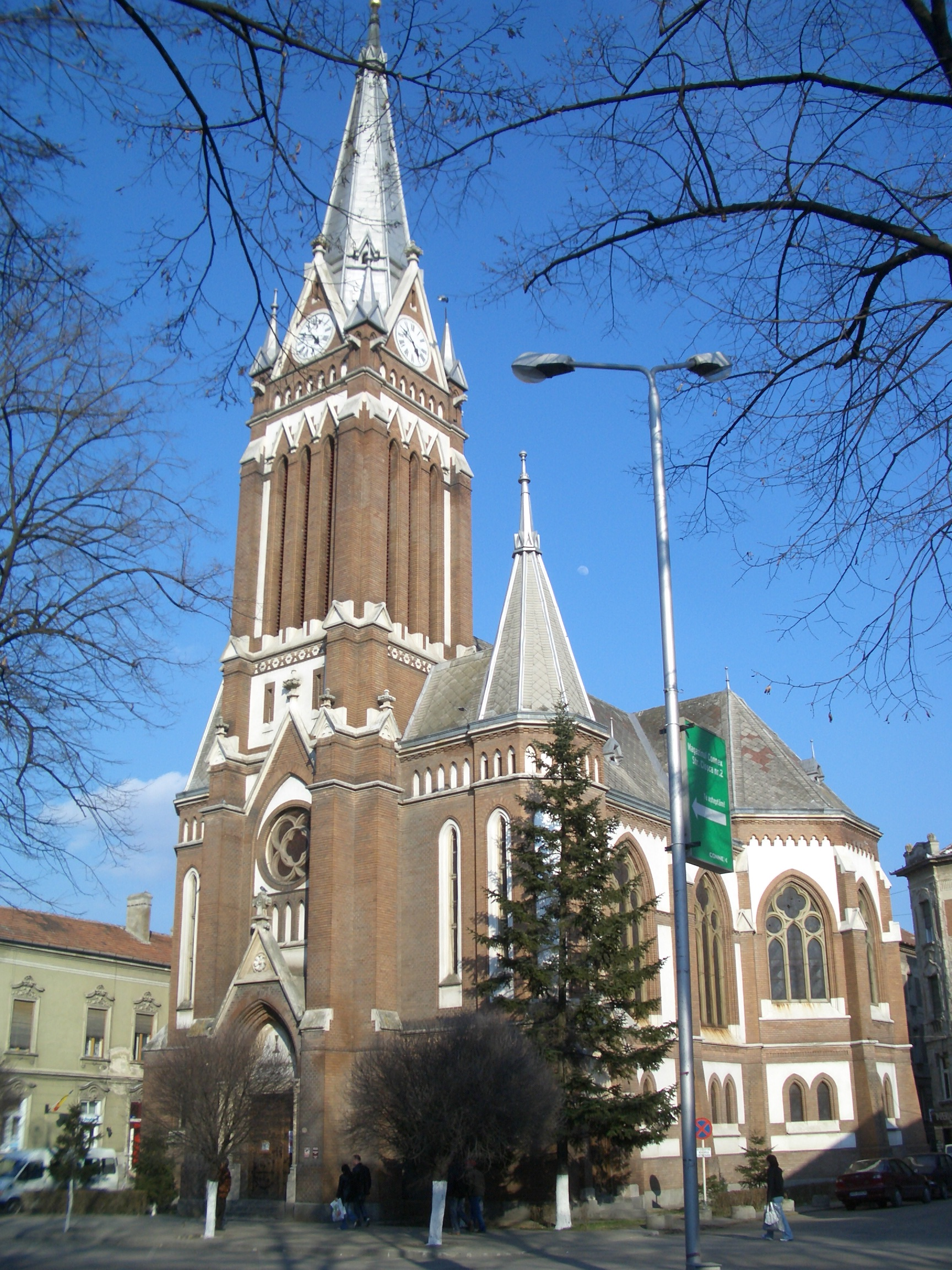 evangelic ("red") church, Arad, Romania